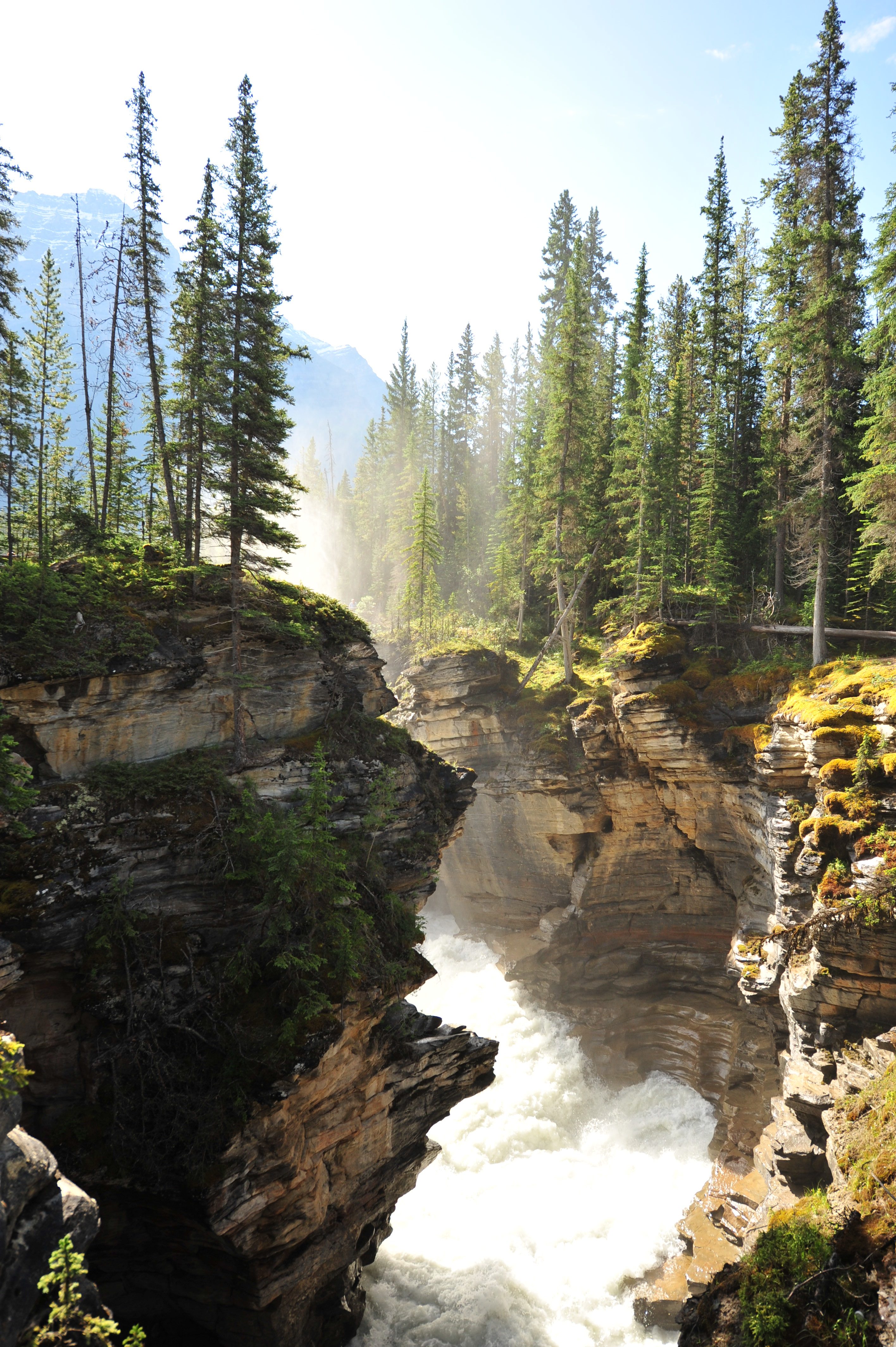 Below Athabasca Falls showing erosion